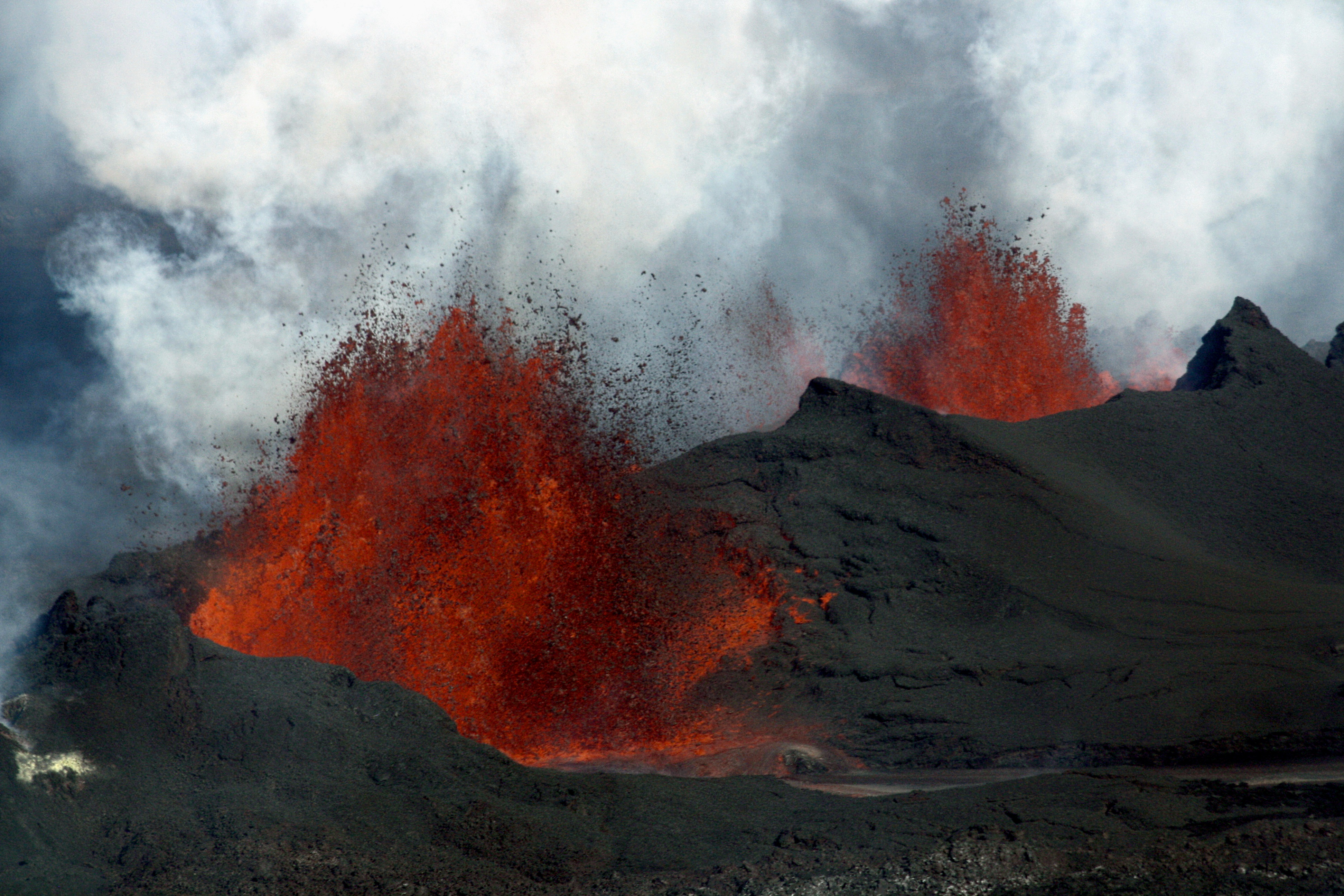 Fissure eruption Holuhraun, Iceland